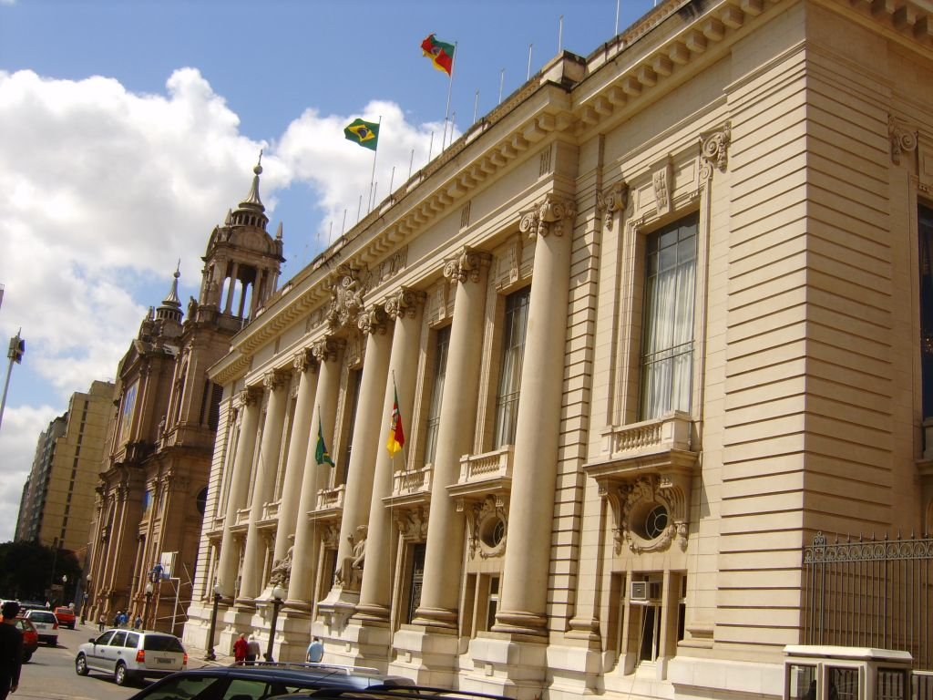 Piratini Palace (Rio Grande do Sul, Brazil, Governor Palace) façade, own work, september 2006